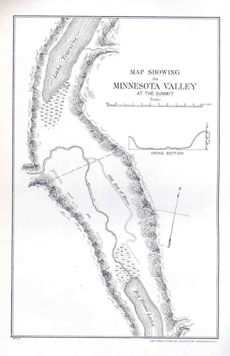 Map Showing the Minnesota Valley At the Summit Subject: Minnesota River Valley (South Dakota and Minnesota) Geographic Subject: United States--South Dakota--Minnesota River Valley, United States--Minnesota--Minnesota River Valley Tag: Commercial Fisheries